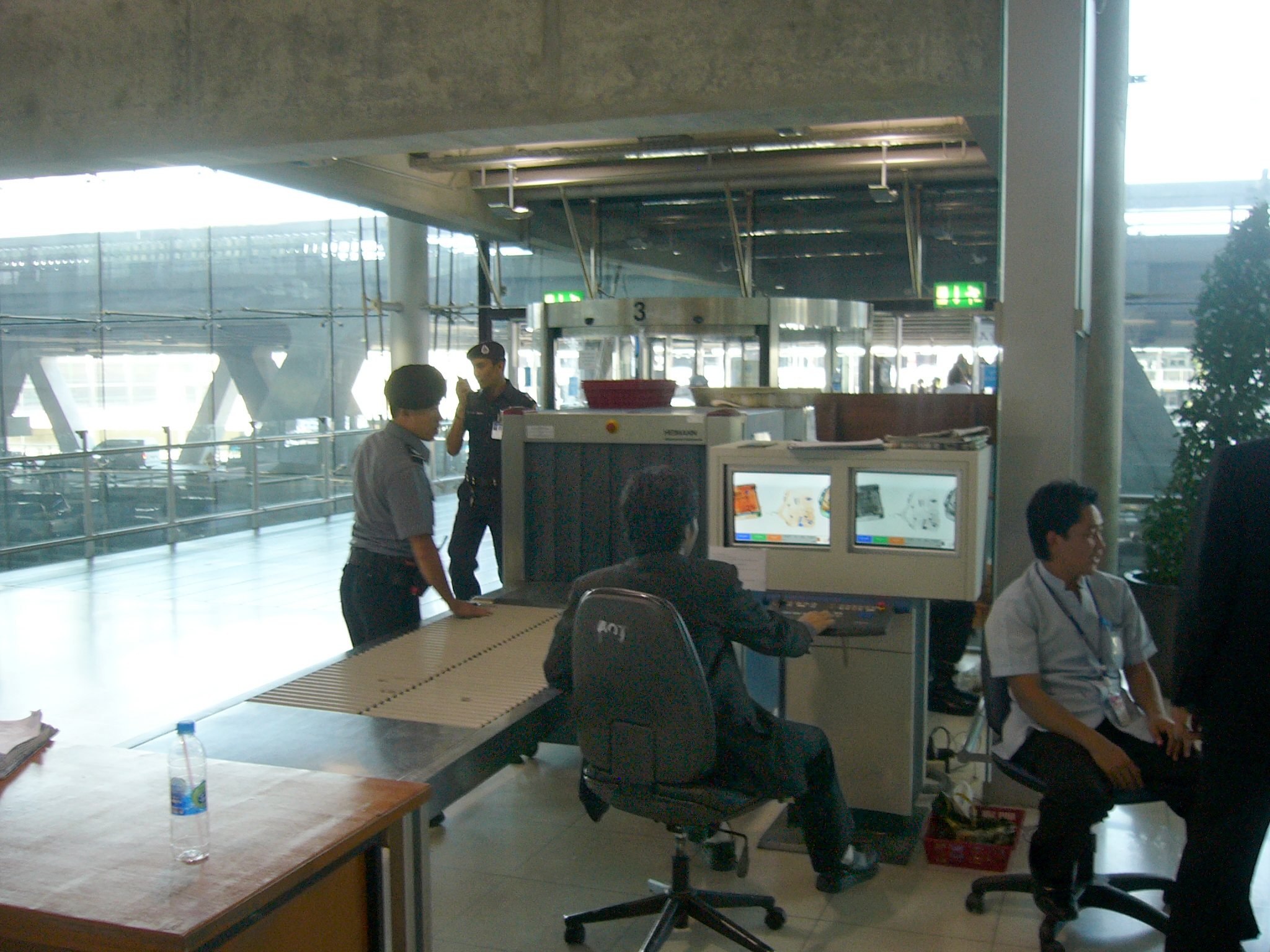 Luggage screening device at Suvarnabhumi International Airport, Bangkok, Thailand. This security post is located for entering the airport which means all people (visitors and passengers) have to pass such a control. Another control will be for boarding luggage before entering the secured area (passengers only). View towards the street.